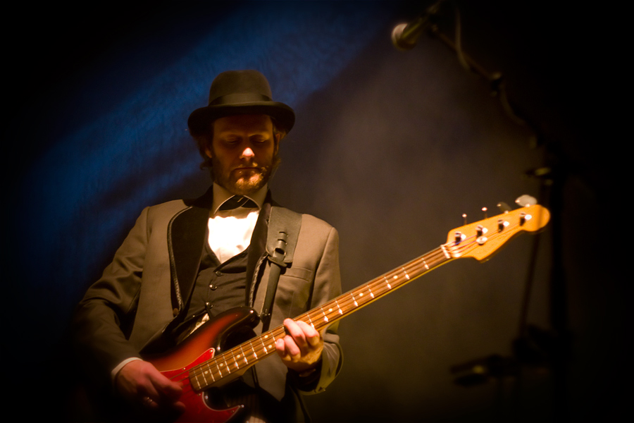 Georg Hólm playing live at Wolves Civic, Wolverhampton, 04.11.08